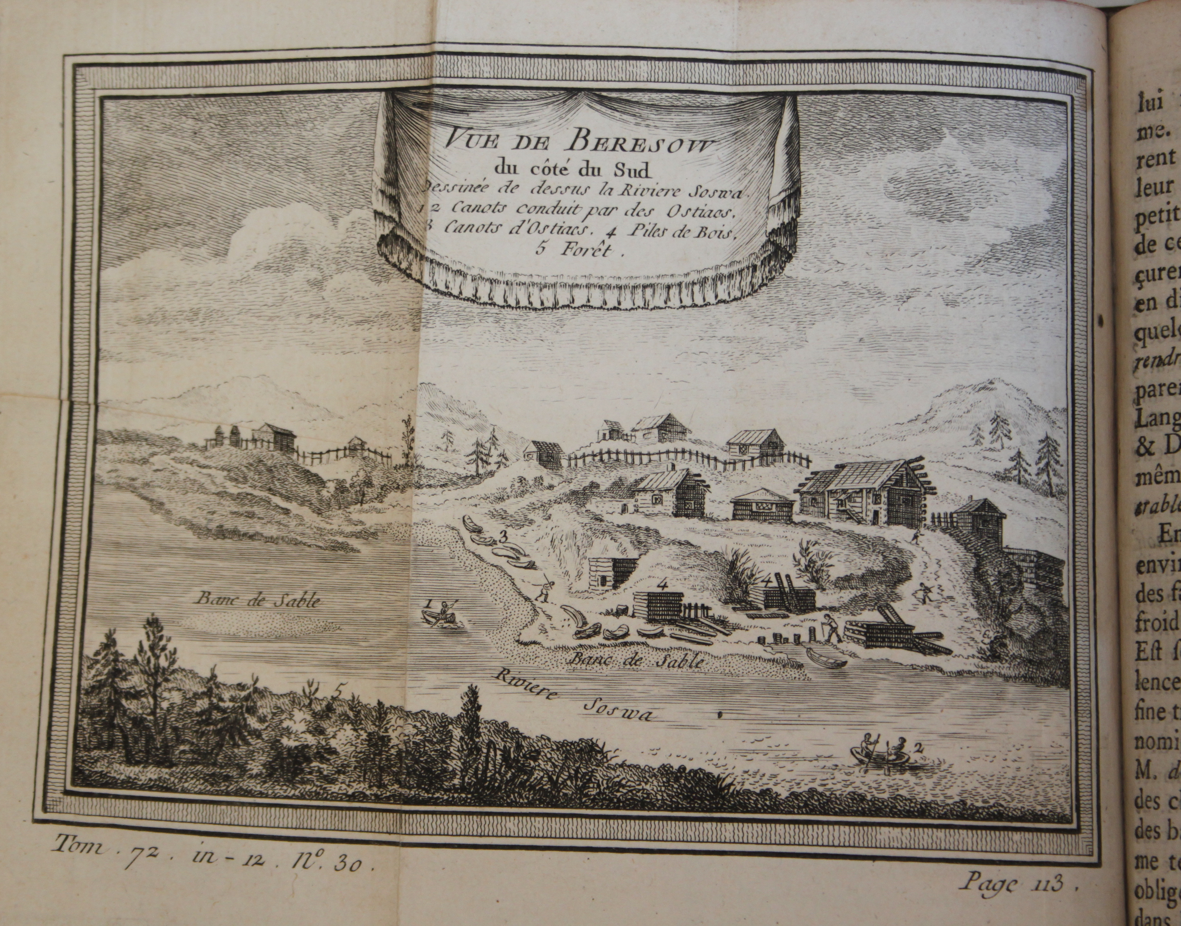 View of Beryozovo, showing the River Sosva and Ostyak canoes (18th century).